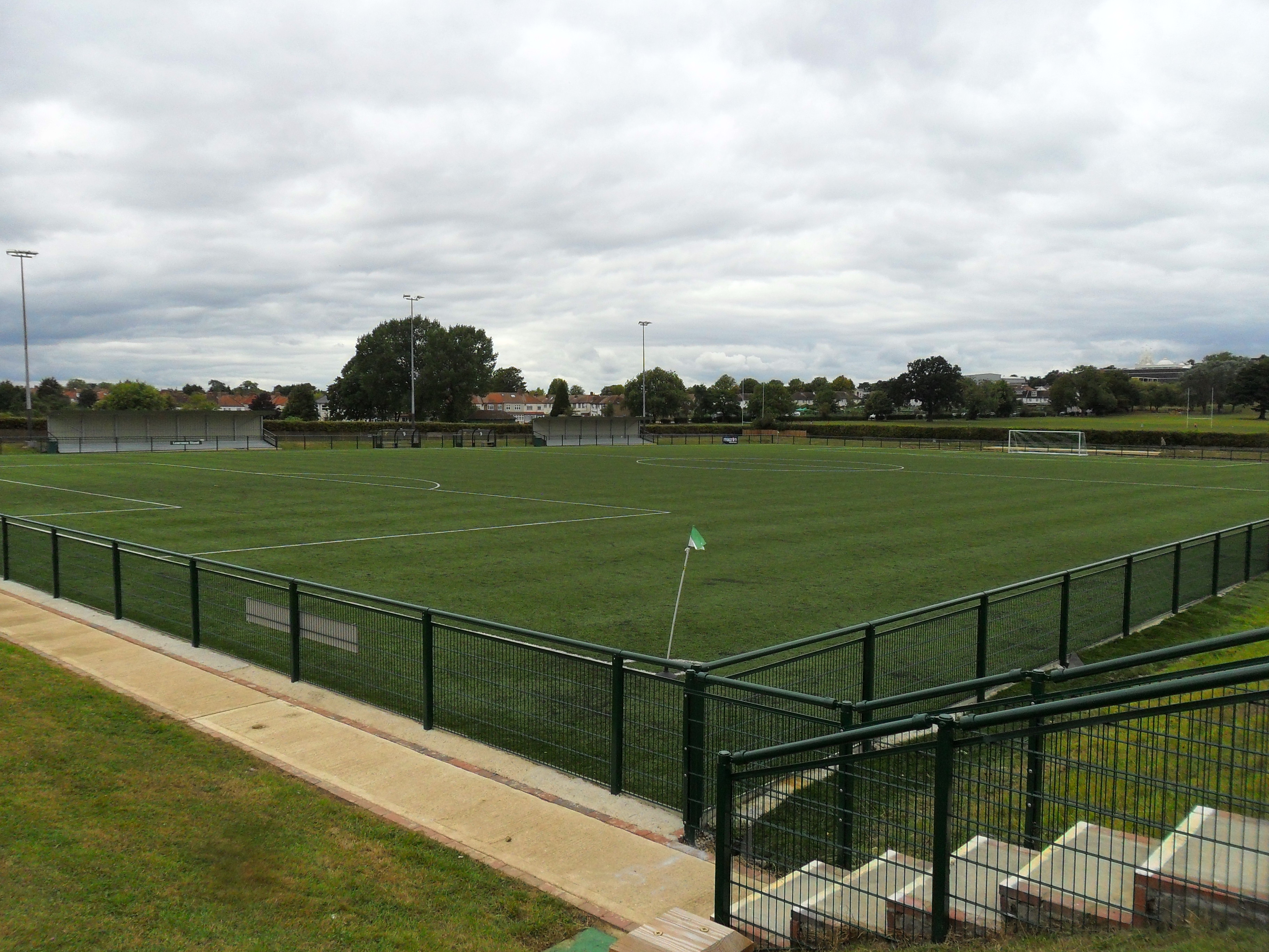 Silver Jubilee Park, Brent